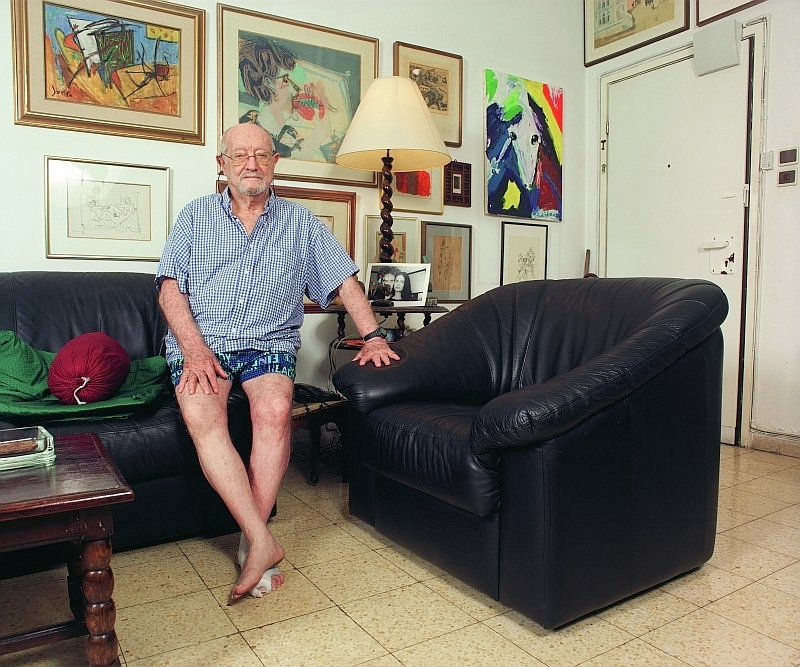 Art of Israel